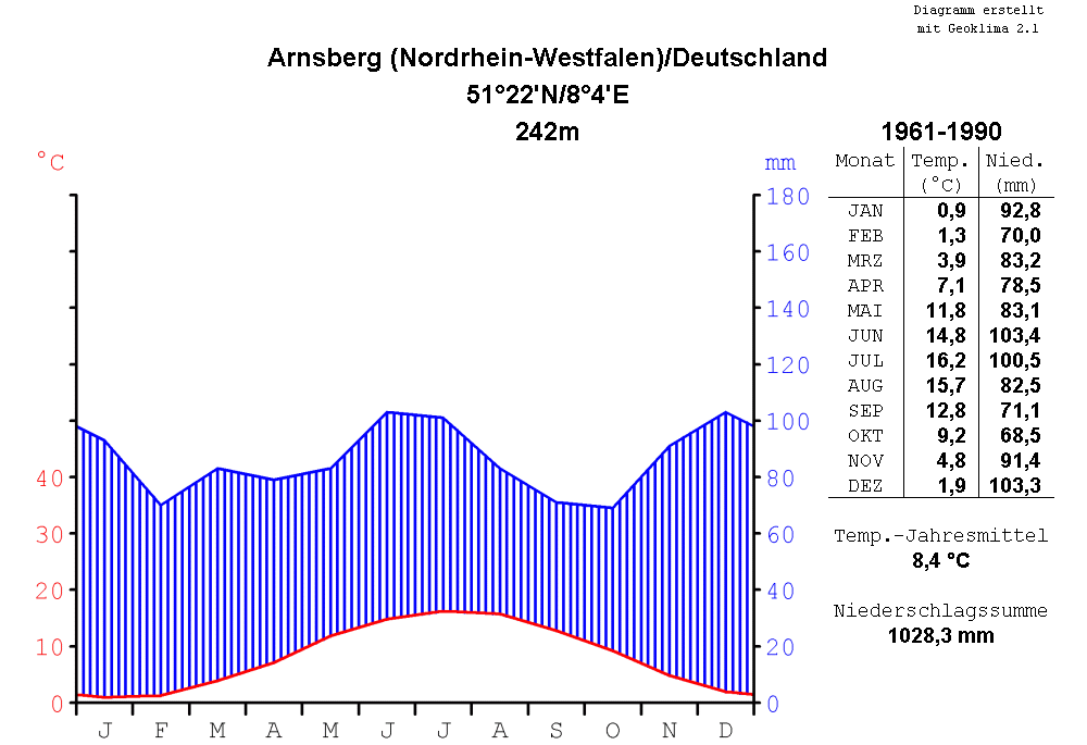 climate chart of Arnsberg, North Rhine-Westphalia, Germany, for the period of time from 1961 to 1990, in the format by Walter and Lieth, metric, °Celsius and millimeters, chart made with Geoklima 2.1, label in German